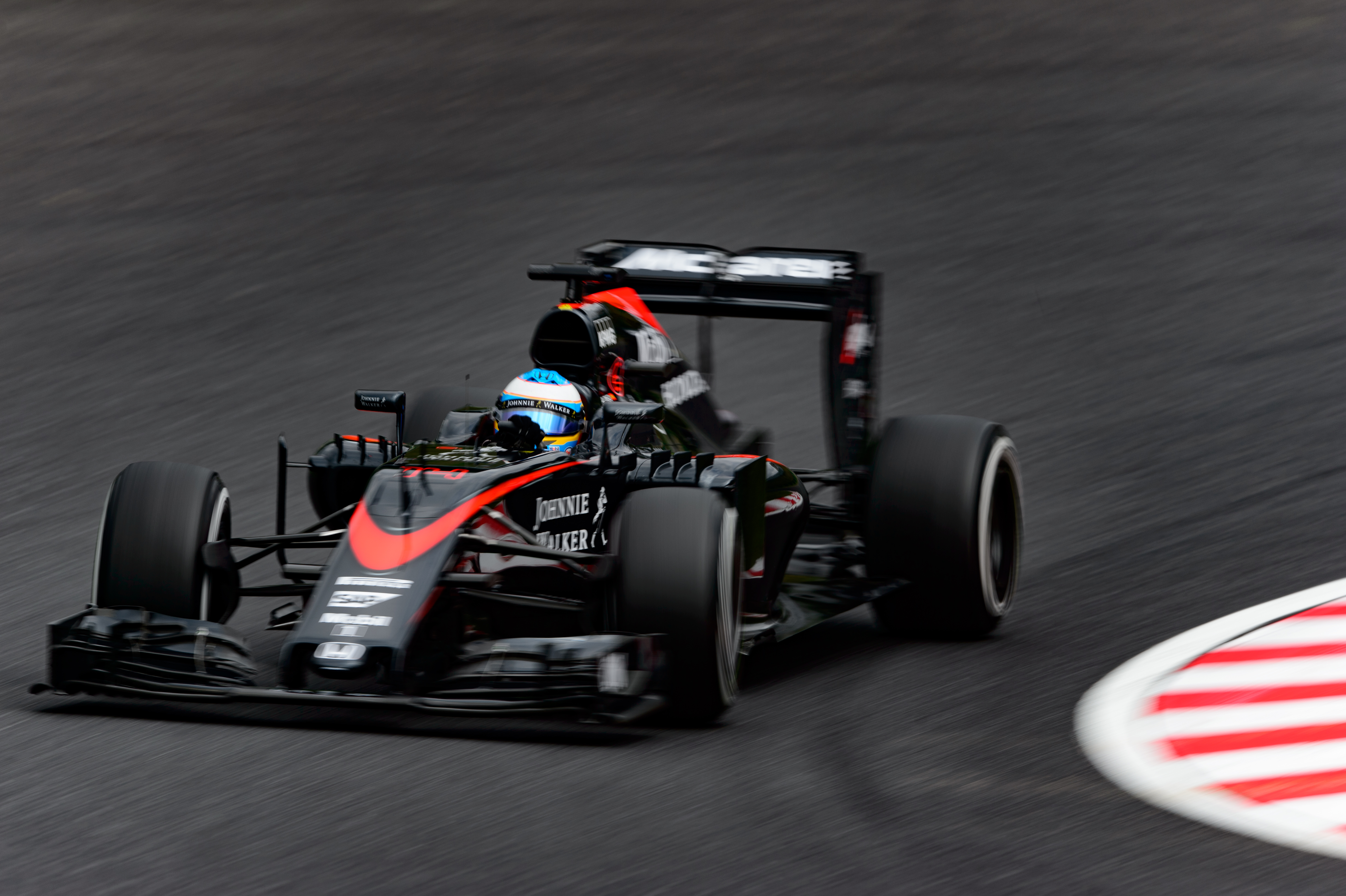 Fernando Alonso at the 2015 Japanese Grand Prix